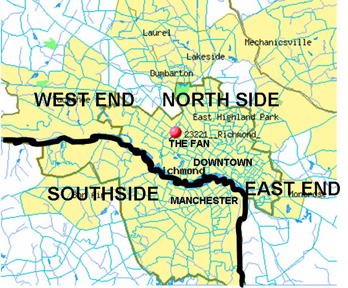 area Richmond-Peterburg